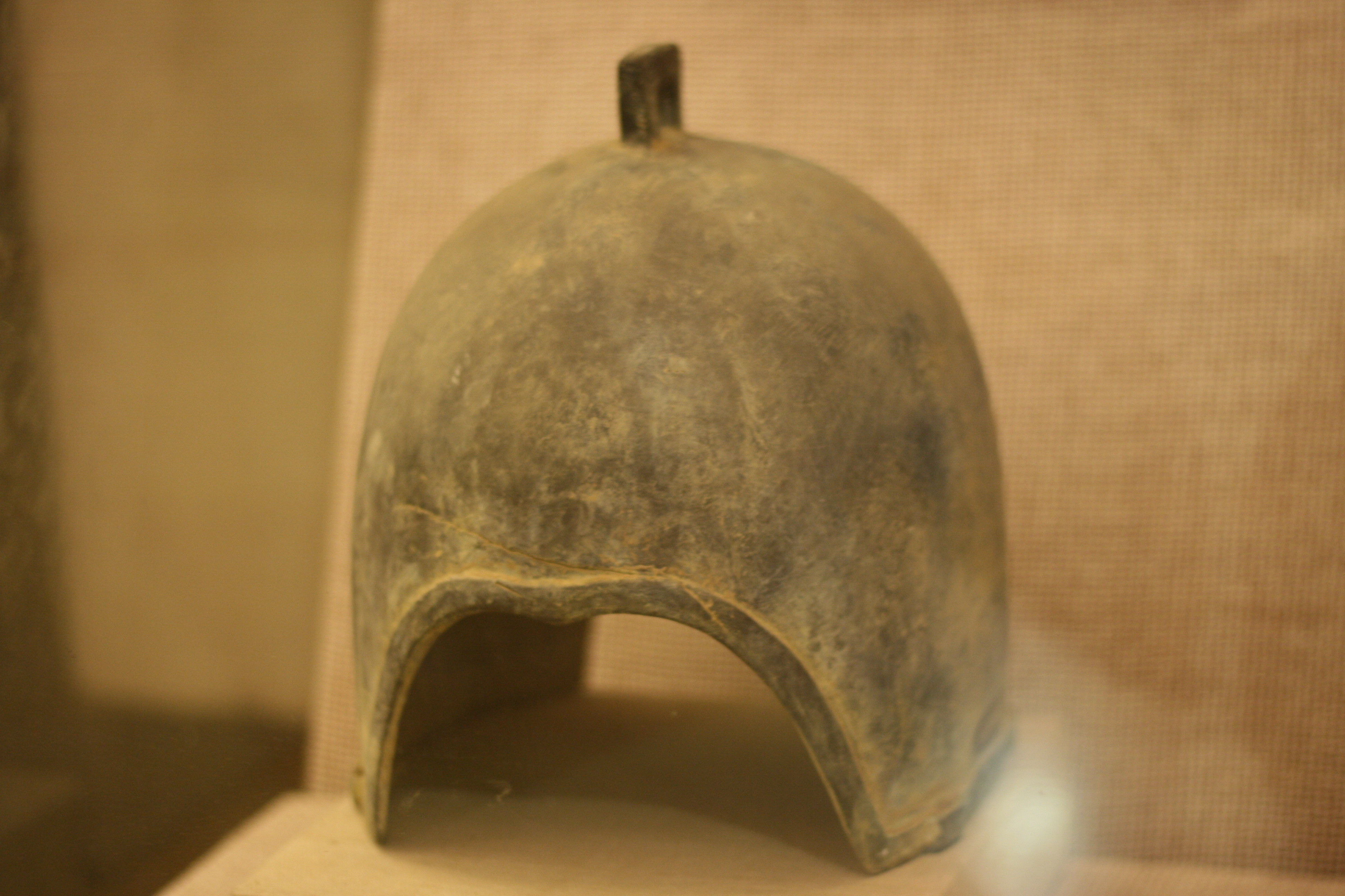 A bronze helmet from the Warring States period.